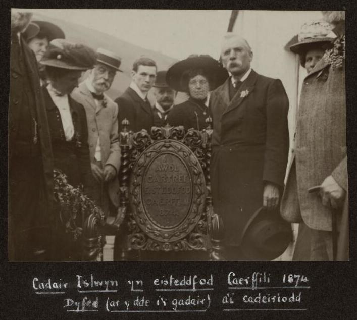 A portrait from the Welsh Portrait Collection at the National Library of Wales. Depicted person: Cadair Islwyn yn eisteddfod Caerffili 1874'